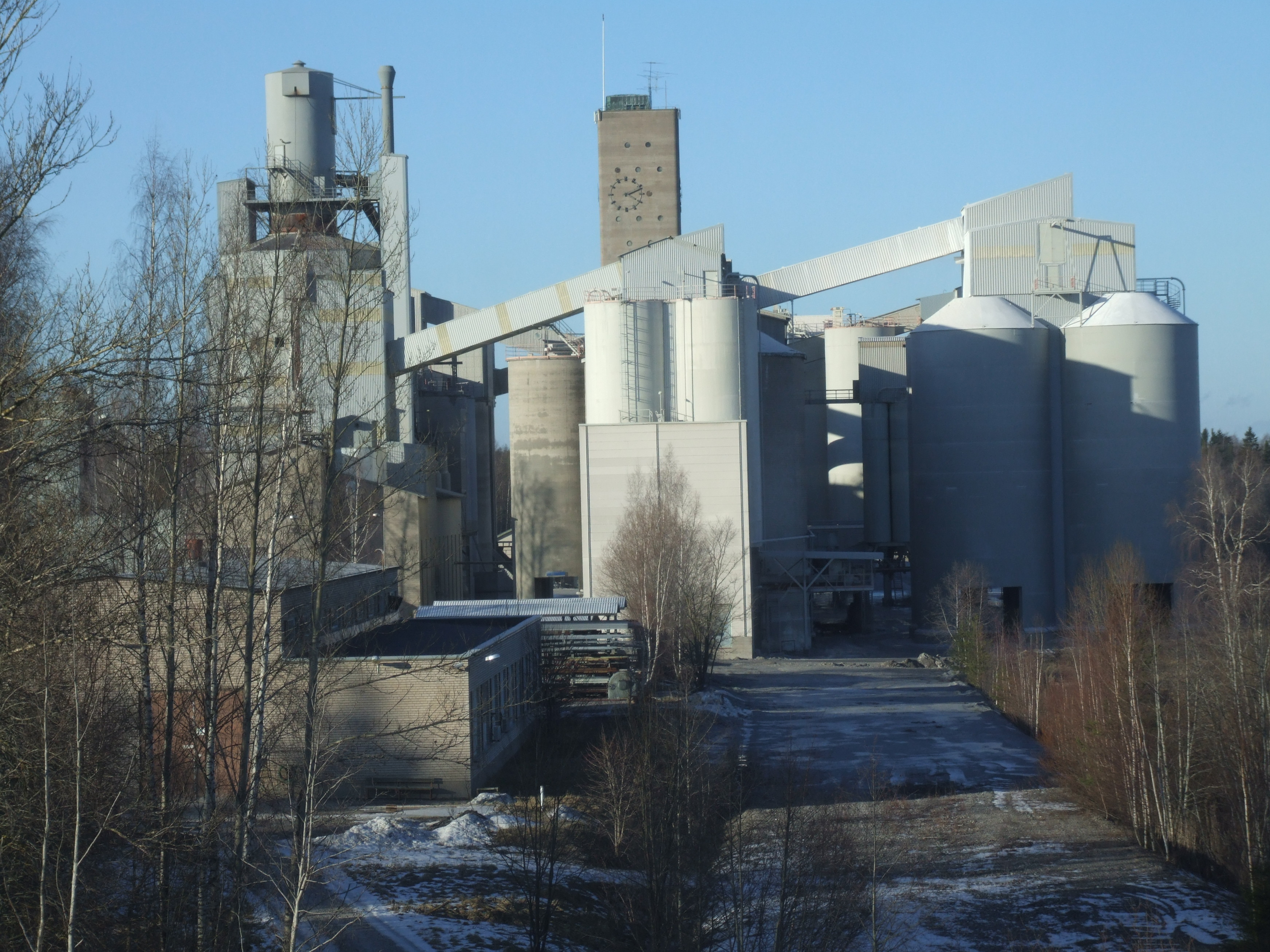 Tytyri limestone mine and factory in Lohja, Finland